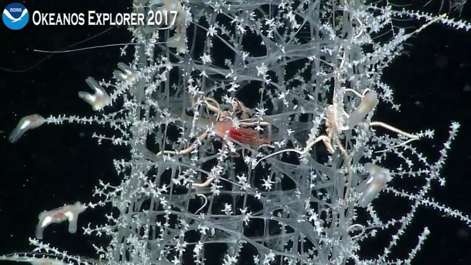 An hexactinellid "glass" sponge (probably Euplectella) observed in the abyss by the NOAA Okeanos Explorer mission "2017 American Samoa Expedition: Suesuega o le Moana o Amerika Samoa". Seen with symbiotic shrimp, and surrounded by commensal benthic ctenophores and brittlestars.